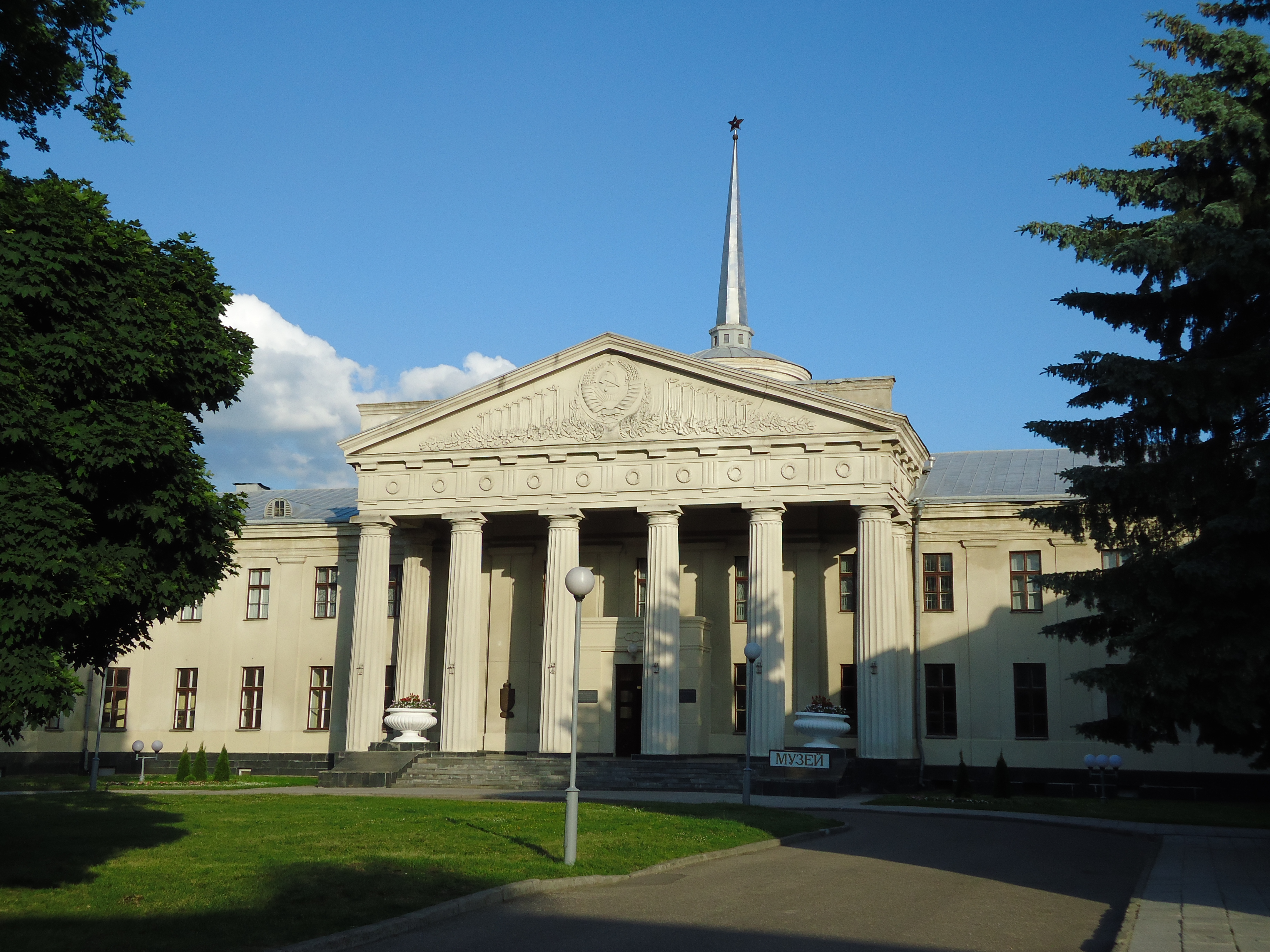 New Castle in Hrodna